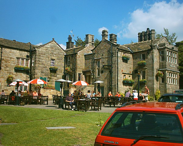 The Fox House hotel and pub, Sheffield (Peak District).